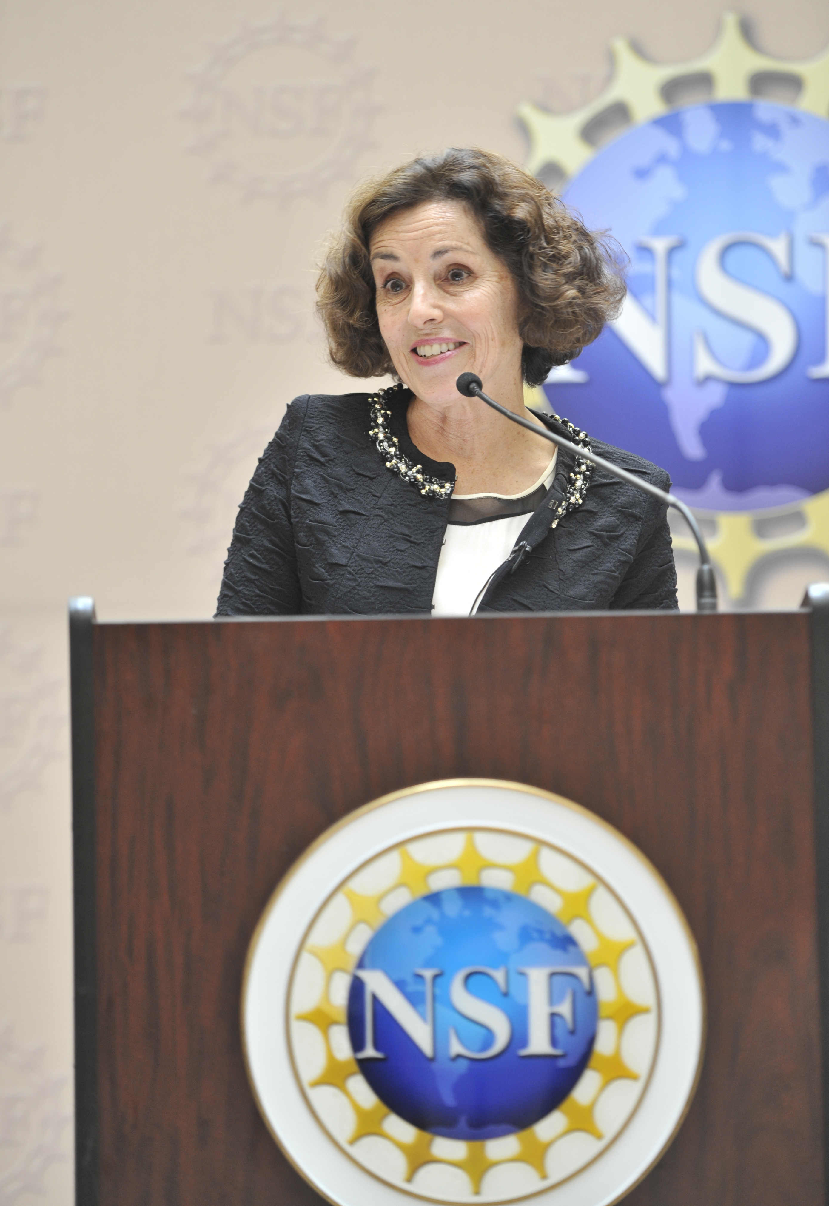 On April 2, 2014, Dr. France A. Córdova was sworn in as the director of the National Science Foundation in a public ceremony at the agency’s Arlington, Va., headquarters. In her first remarks as NSF director, she said, “To all of you – and to my new NSF colleagues – I would like to commend you for your long-standing commitment to pursuing fundamental scientific research and to keeping our nation at the very forefront of the world’s science and engineering enterprise.… As a young girl, I was inspired to become a scientist by the passion and practice of scientists. I look forward to engaging with you as we continue to empower discovery and drive innovation and make the National Science Foundation known throughout the world as the place ‘where discoveries begin.’” To learn more, see the NSF press release. Credit: Sandy Schaeffer for NSF